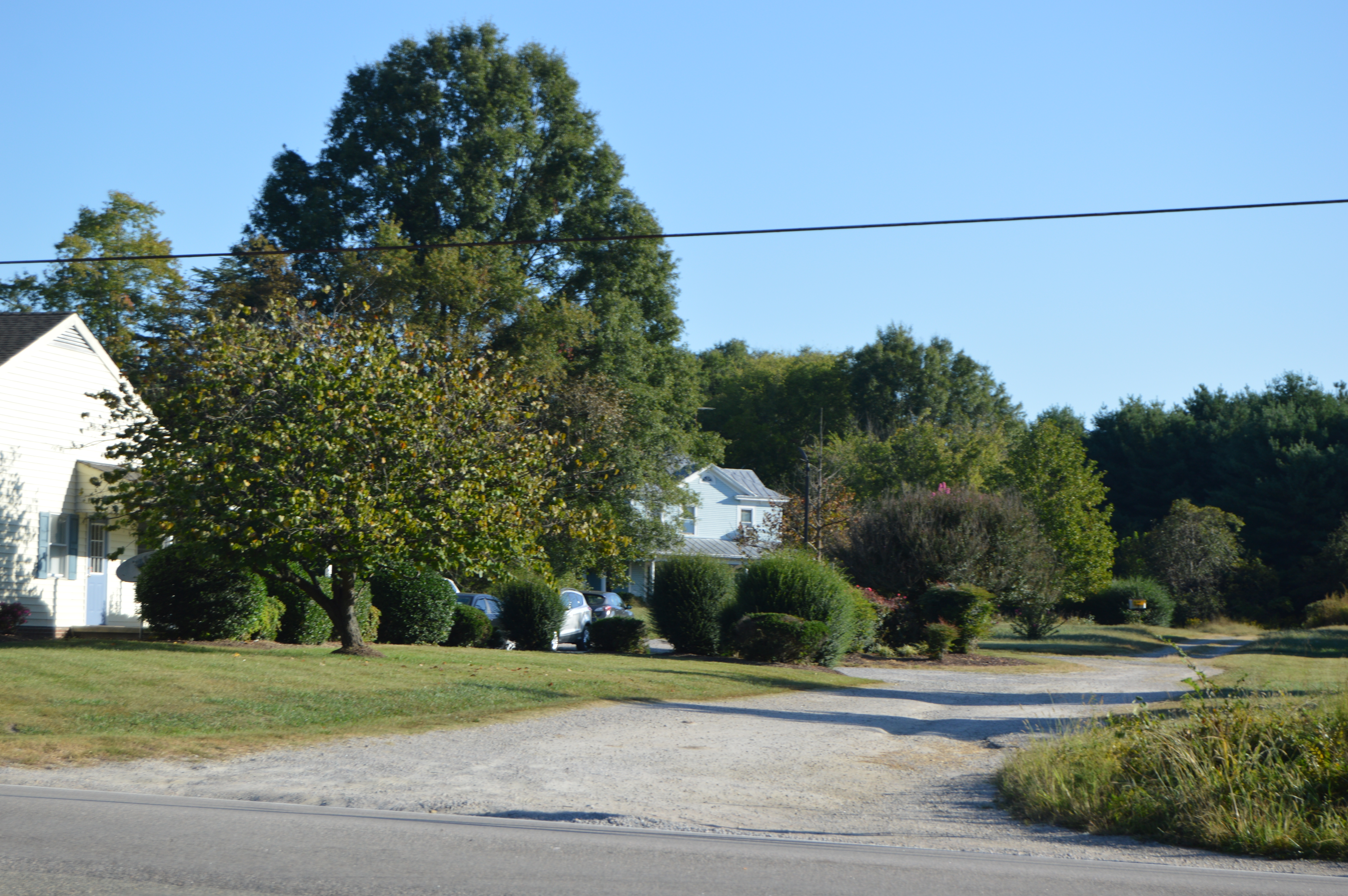 Driveway to the Burlington estate, located off Ferndale Road west of Petersburg in Dinwiddie County, Virginia, United States. The house in the distance is not part of the estate. The estate is listed on the National Register of Historic Places.